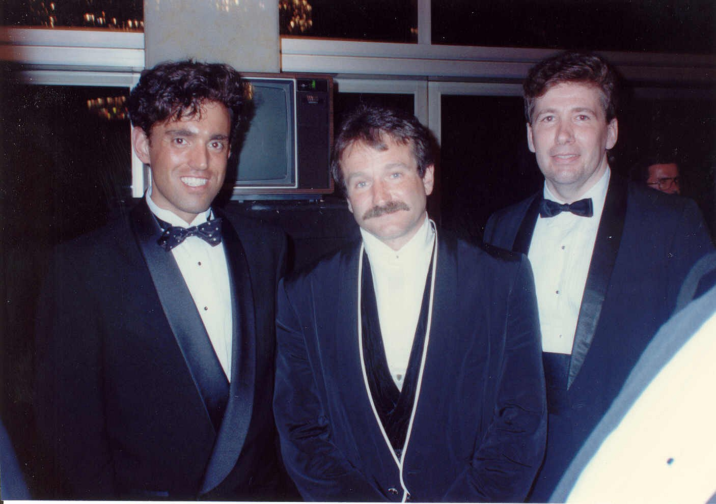 Photo taken at the 62nd Academy Awards 3/26/90 - Permission granted to copy, publish or post but please credit "photo by Alan Light" if you can